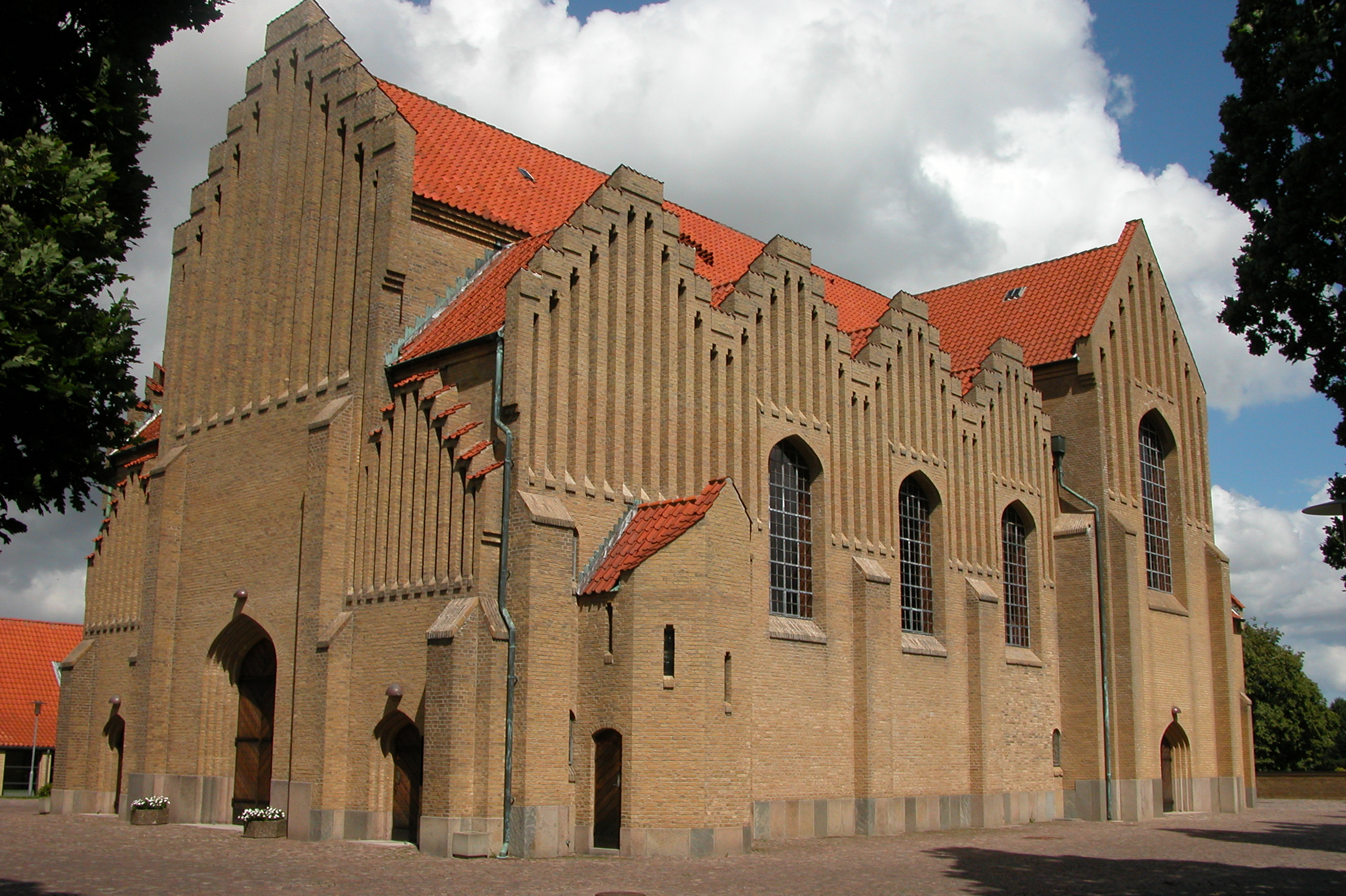 Christianskirken, Sonderburg, Denmark